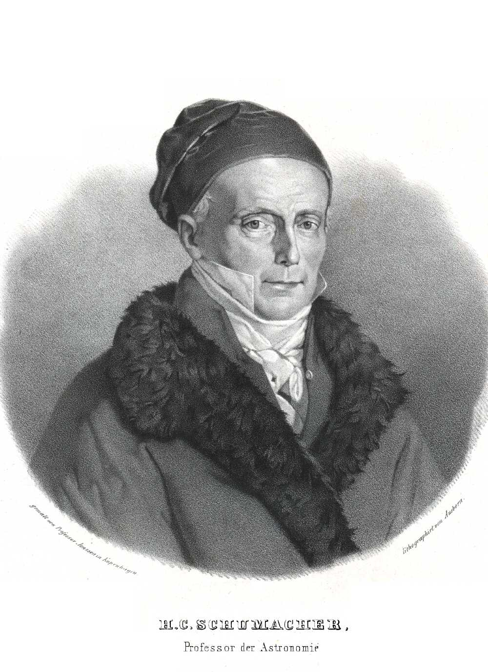 Portrait of the astronomer Heinrich Christian Schumacher. Lithography. Graphic: 20.5 x 20.5 cm / Sheet: 28.9 x 21.3 cm